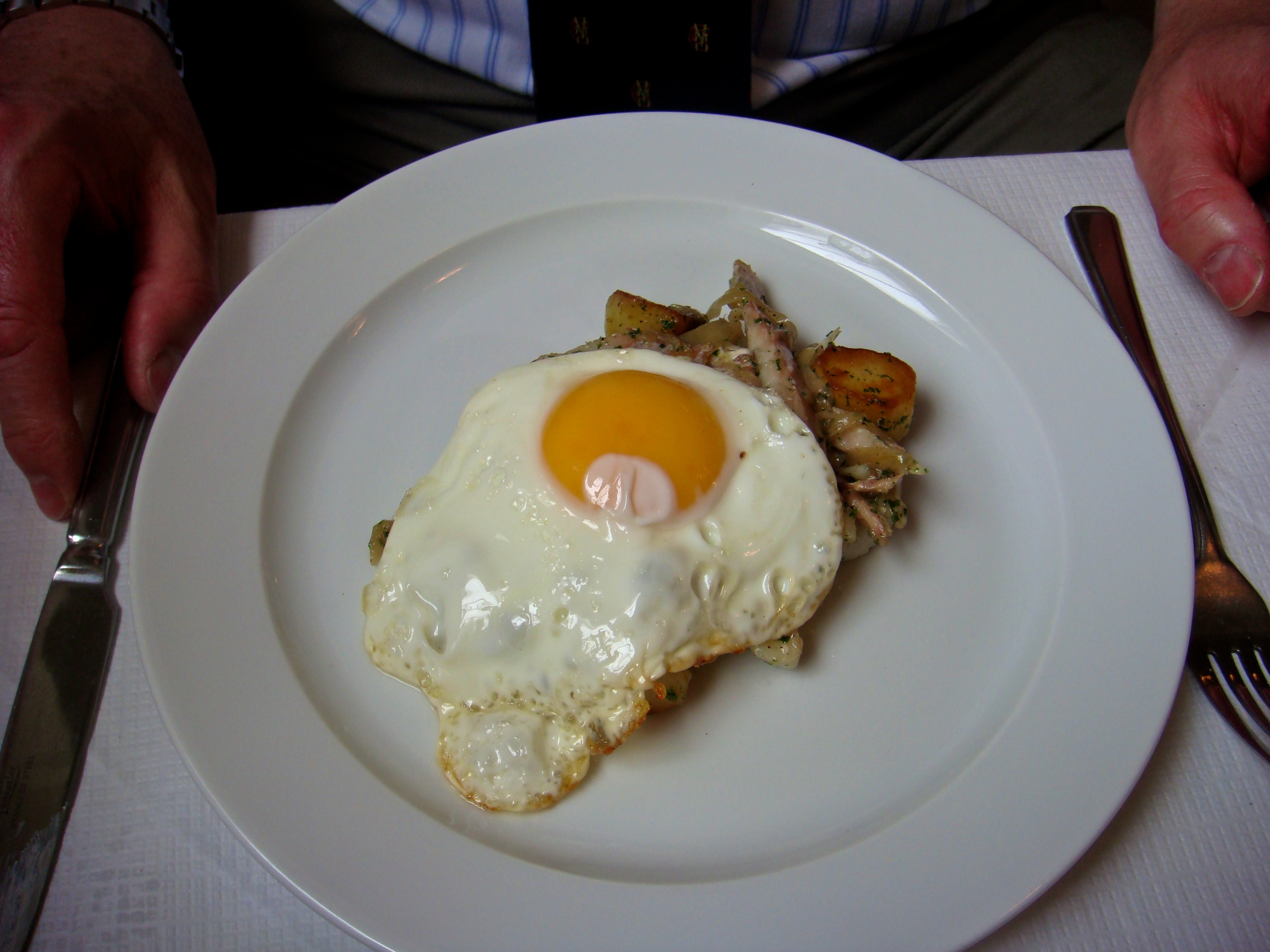 Arbroath Smokie